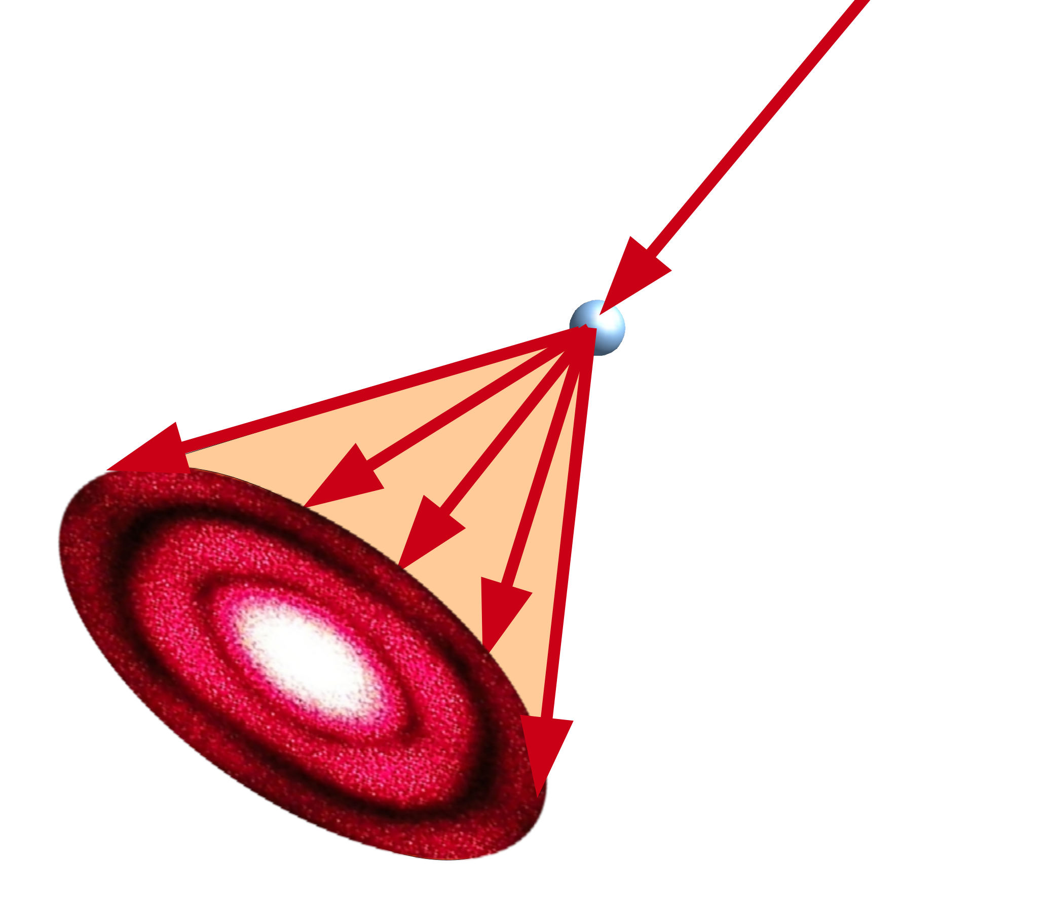 Diffraction rings